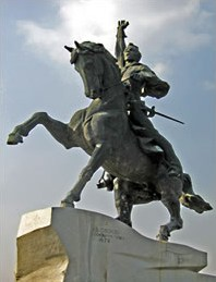 Statue of Alexander Suvorov in Tiraspol, Transnistria